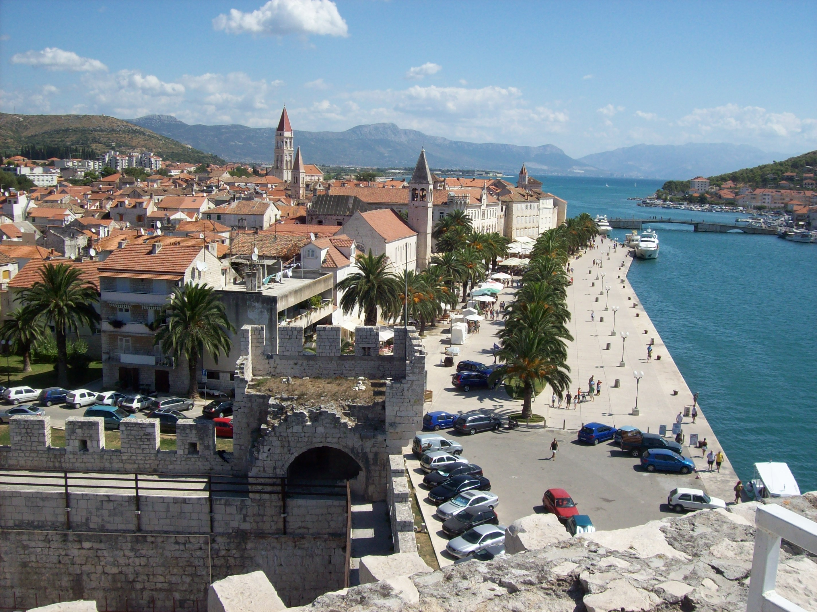 View of Trogir.